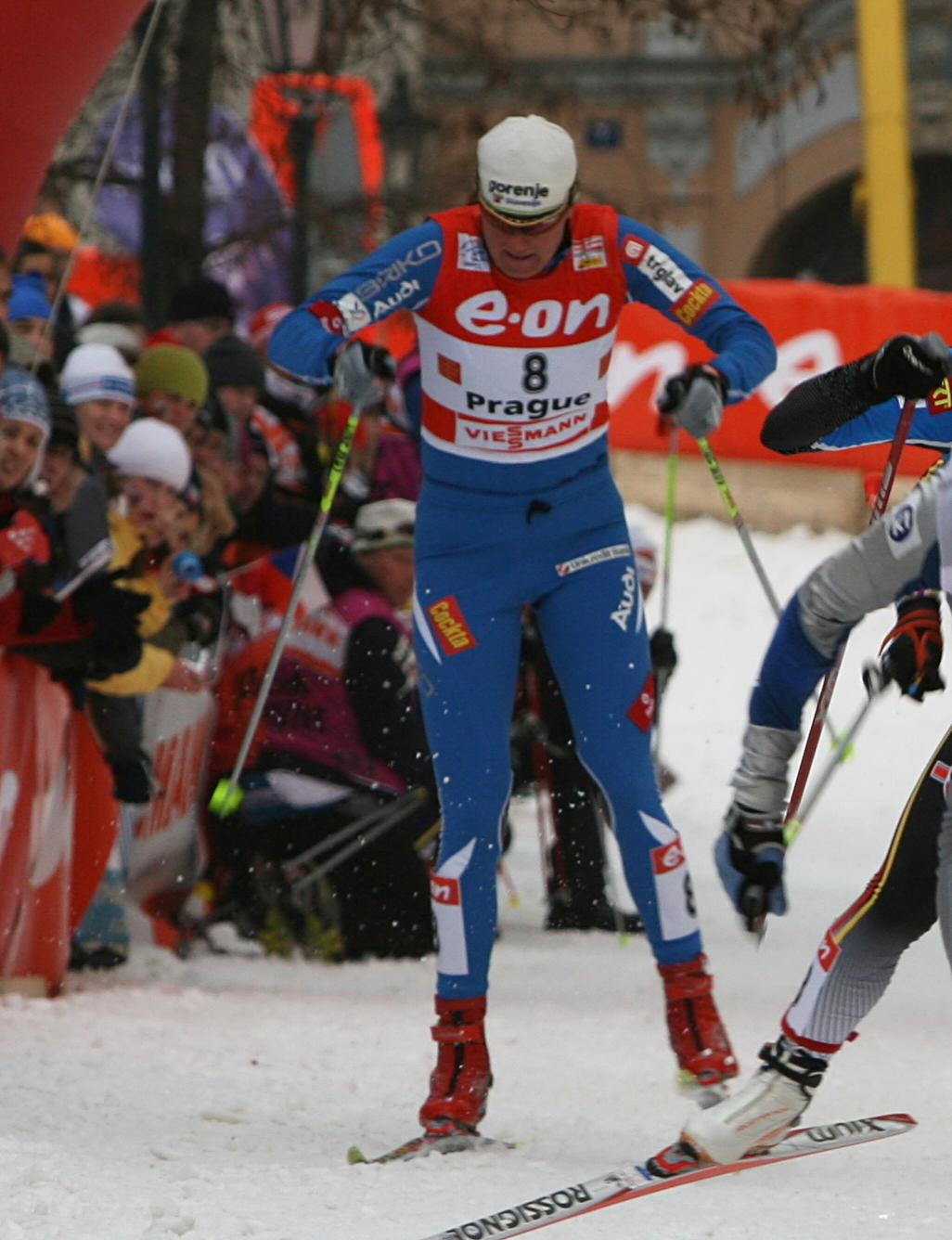 Petra Majdič in the quaterfinals of Tour de Ski in Prague